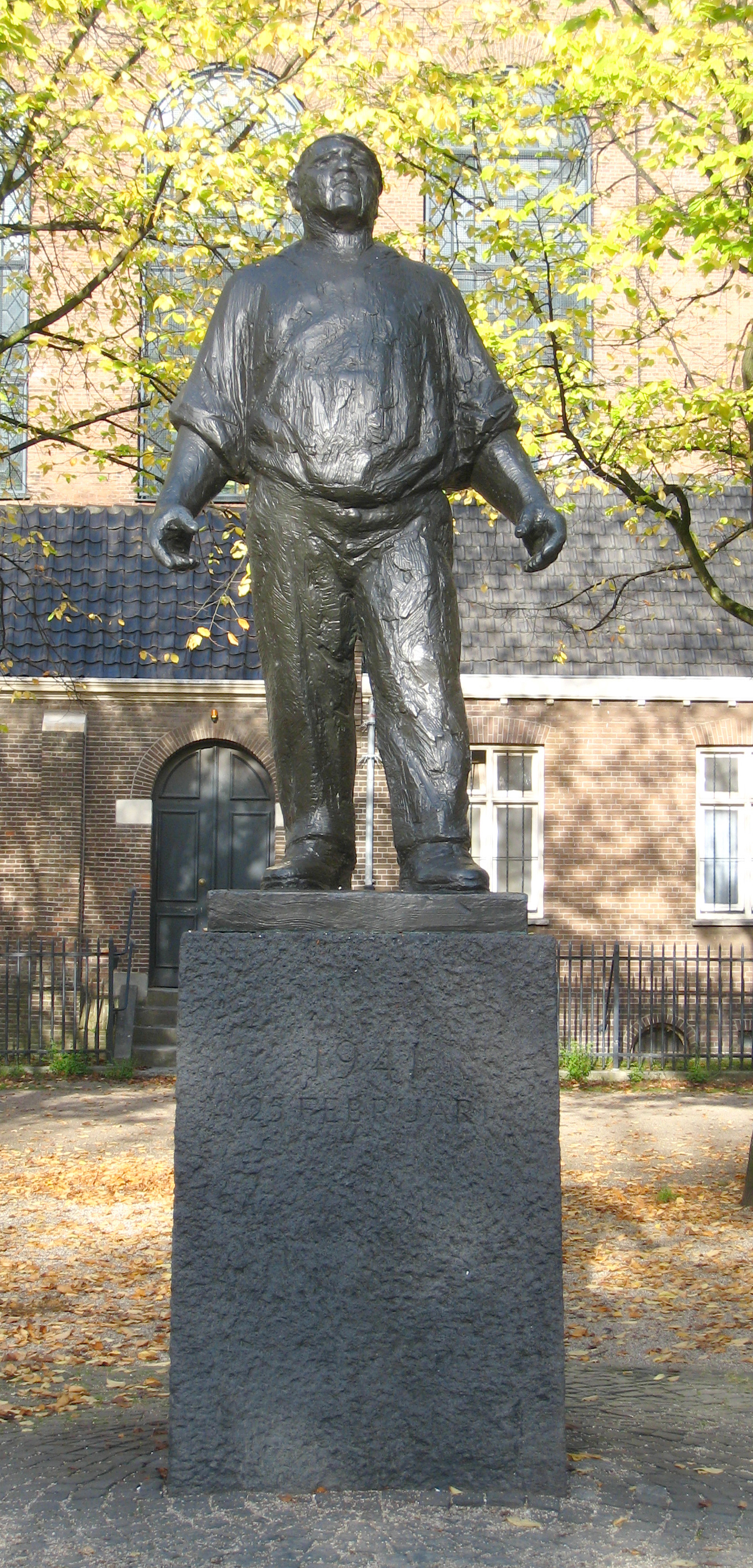 De Dokwerker is a sculpture and monument on the Jonas Daniël Meijerplein in Amsterdam in remembrance of the Februari-strike of 1941.